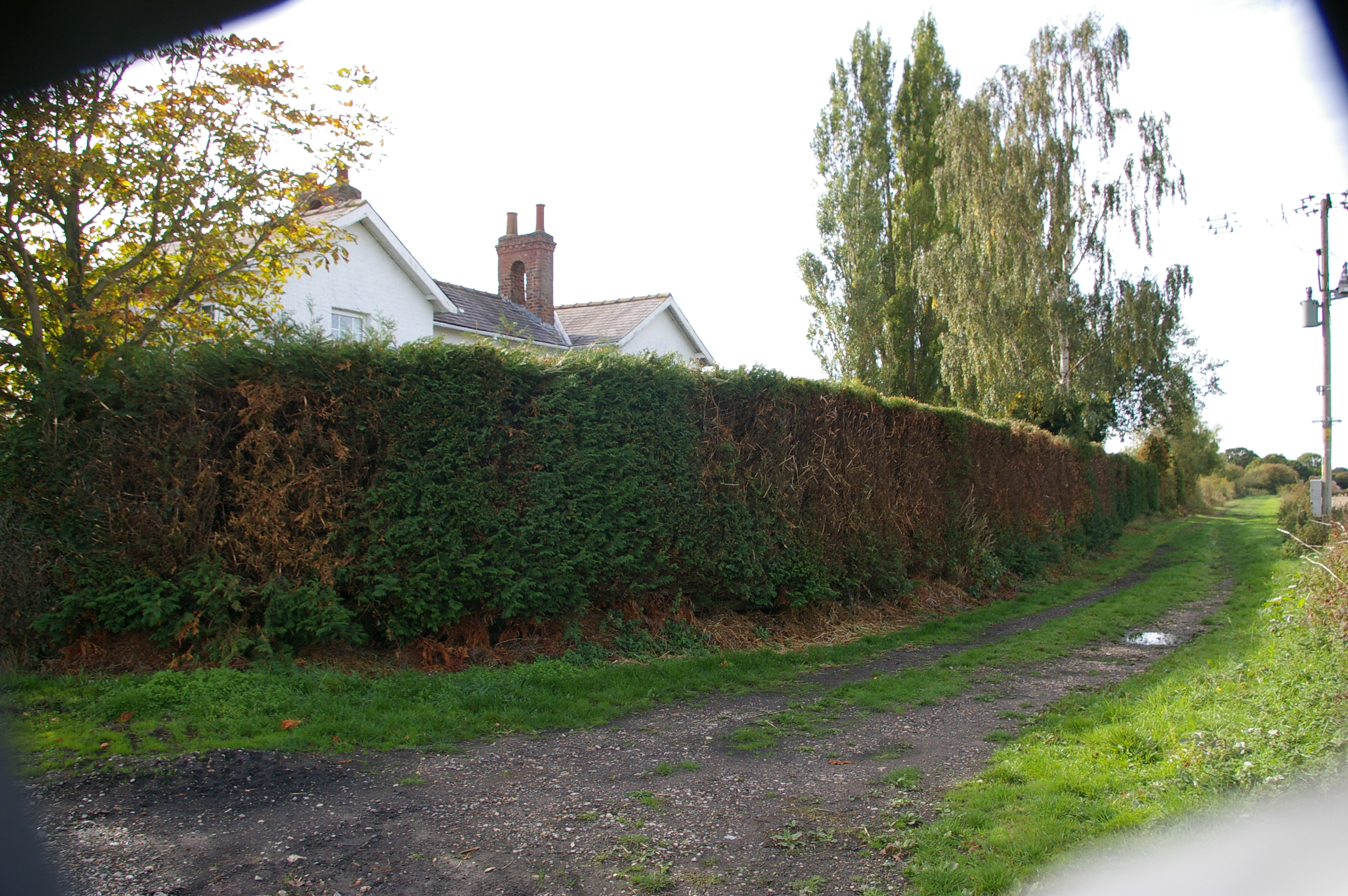 South Duffield Gate Halt Crossing Keeper's Cottage